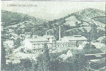 the brewery in Csiklovabánya (Ciclova Montană) in 1905